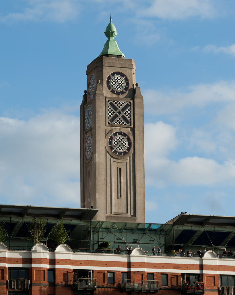 The OXO Tower on London's South Bank, viewed from the opposite bank of the river Thames.